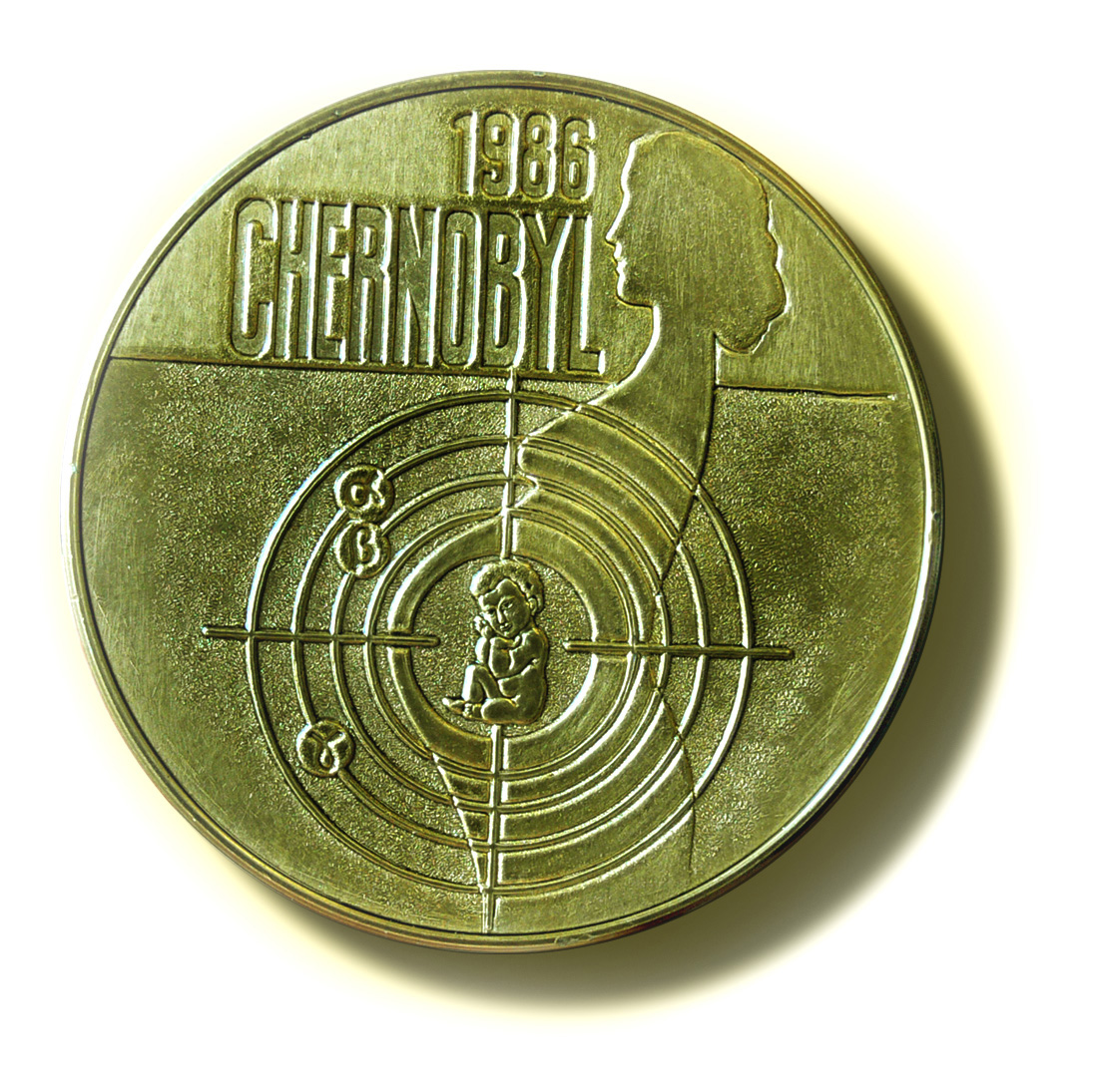 Medal commemorating the Chernobyl disaster, in bronze. The reverse shows a pregnant woman whose fetus is exposed to alpha, beta and gamma, and reverse shows the Chernobyl bell (there is a bell that is rung every commemoration). Photo, source and license to broadcast: A Villain, and F Lamiot.